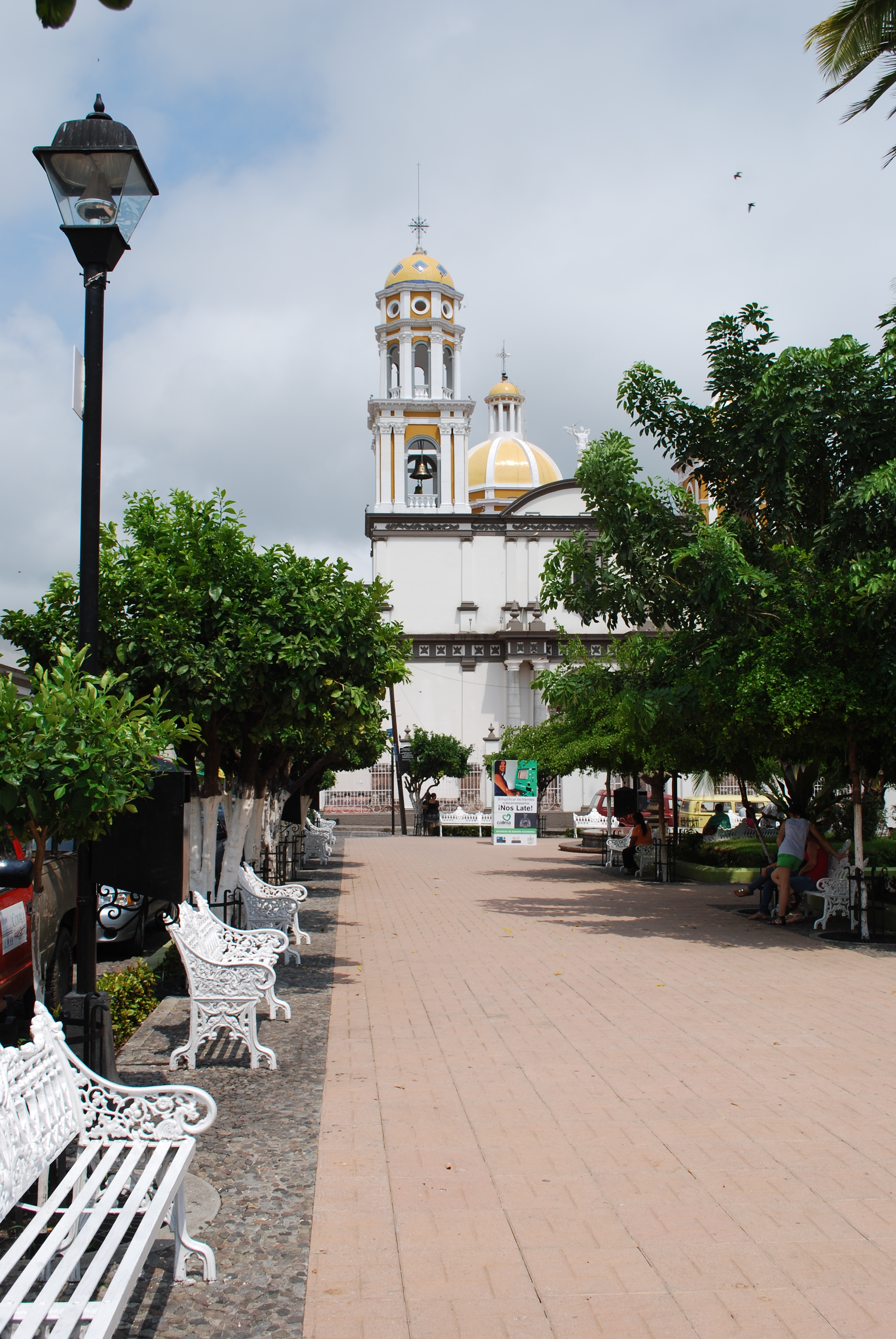 NE side of the main plaza looking towards the main church of Comala, Colima, Mexico